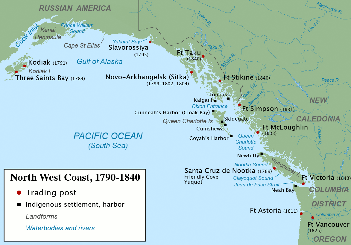 Map of the North West Coast during the Maritime Fur Trade era, circa 1790 to 1840. Main sources consulted include: Gibson, James R. (1992). Otter Skins, Boston Ships, and China Goods: The Maritime Fur Trade of the Northwest Coast, 1785-1841. McGill-Queen's University Press. ISBN 0-7735-2028-7 Gibson, James R. (1997). The Lifeline of the Oregon Country: The Fraser-Columbia Brigade System, 1811-47. University of British Columbia (UBC) Press. ISBN 0774806435 Haycox, Stephen W. (2002). Alaska: An American Colony. University of Washington Press. ISBN 9780295982496 Hayes, Derek (1999). Historical Atlas of the Pacific Northwest: Maps of exploration and Discovery. Sasquatch Books. ISBN 1-57061-215-3 Mackie, Richard Somerset (1997). Trading Beyond the Mountains: The British Fur Trade on the Pacific 1793-1843. Vancouver: University of British Columbia (UBC) Press. ISBN 0-7748-0613-3